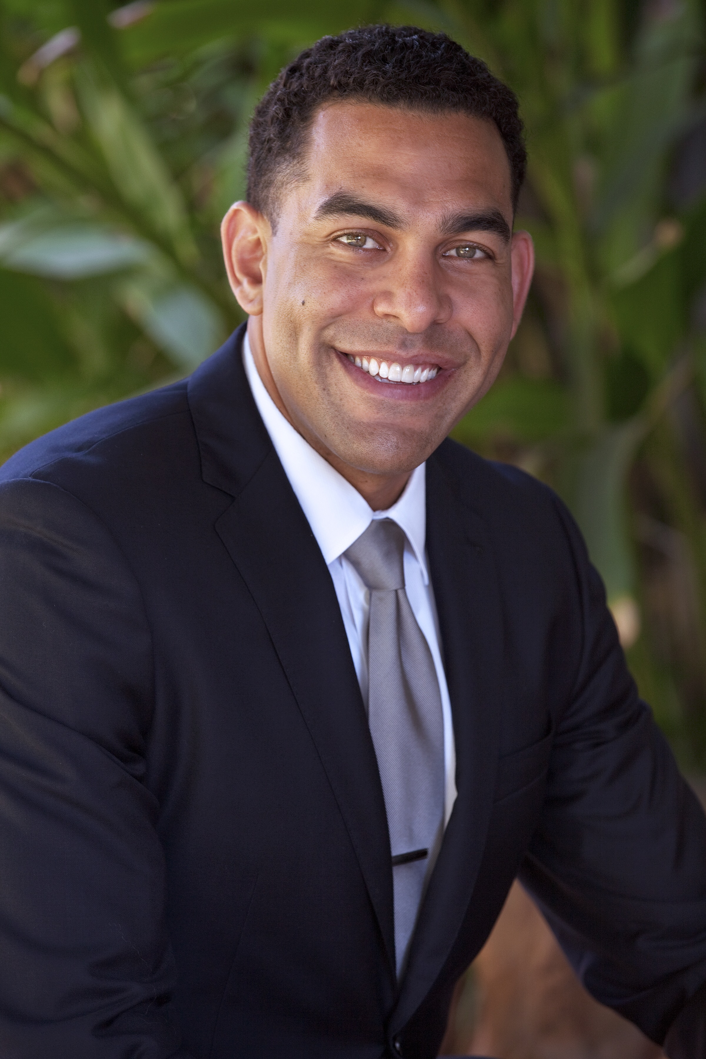 David Blu